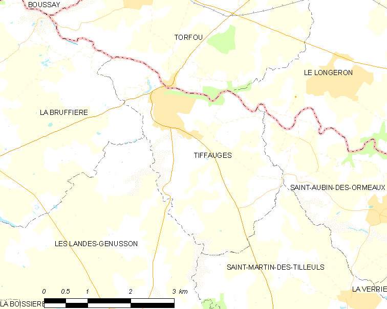 Map of French municipality Tiffauges